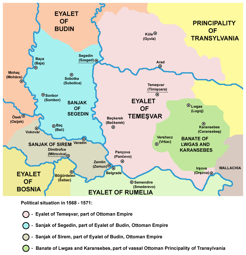 Historic map of the Eyalet of Temeşvar, Sanjak of Sirem, Sanjak of Segedin, and Banate of Lwgas and Karansebes.